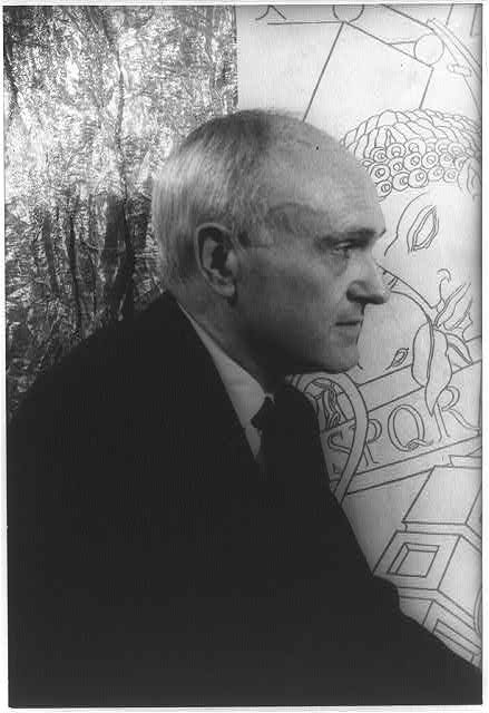 Portrait of Philip Johnson